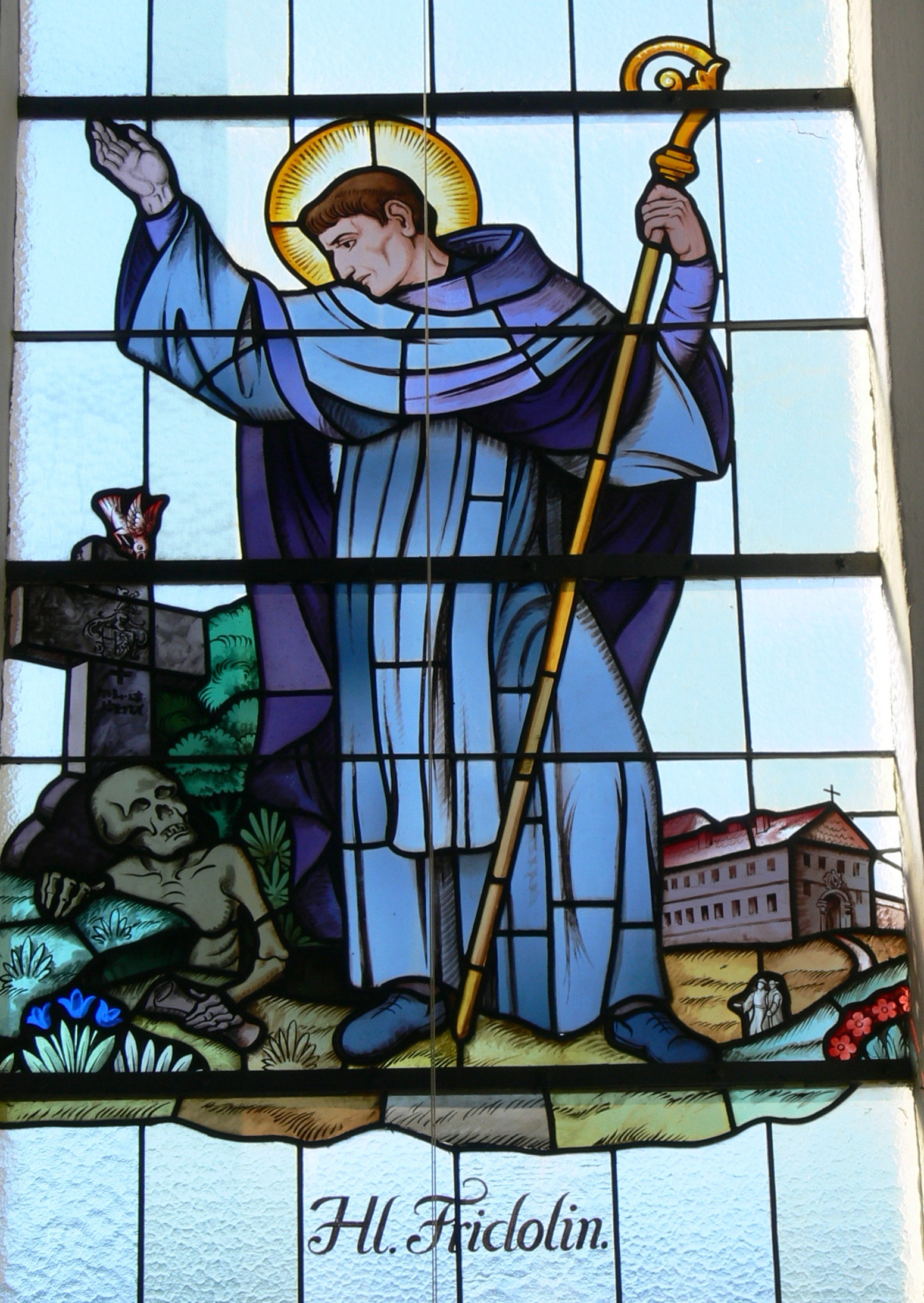 Andelsbuch ( Vorarlberg ). Saint Peter and Paul parish church: Stained glass window showing Saint Fridolin.